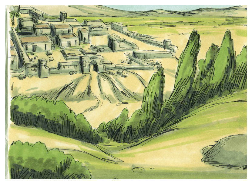 Biblical illustration of Gospel of John Chapter 11